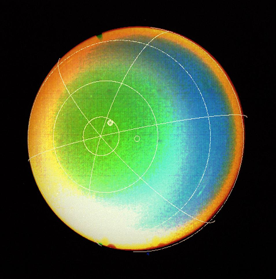 A latitude-longitude grid superimposed on this Voyager 2 false color image shows that Uranus' atmosphere circulates in the same direction as the planet rotates. Image #: PIA01489 Date: January 24, 1986